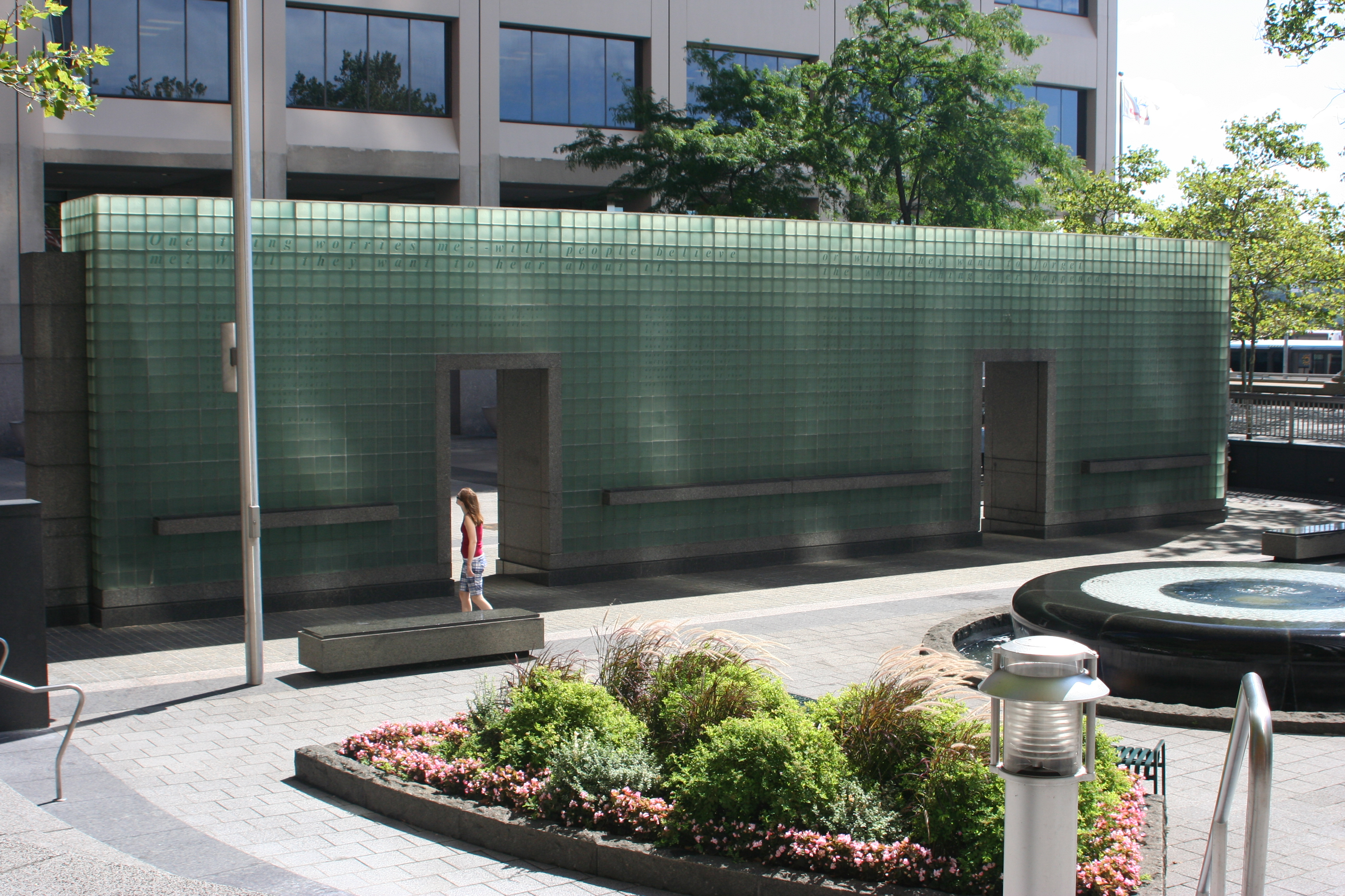 New York City Vietnam Veterans Memorial on Water Street in Manhattan